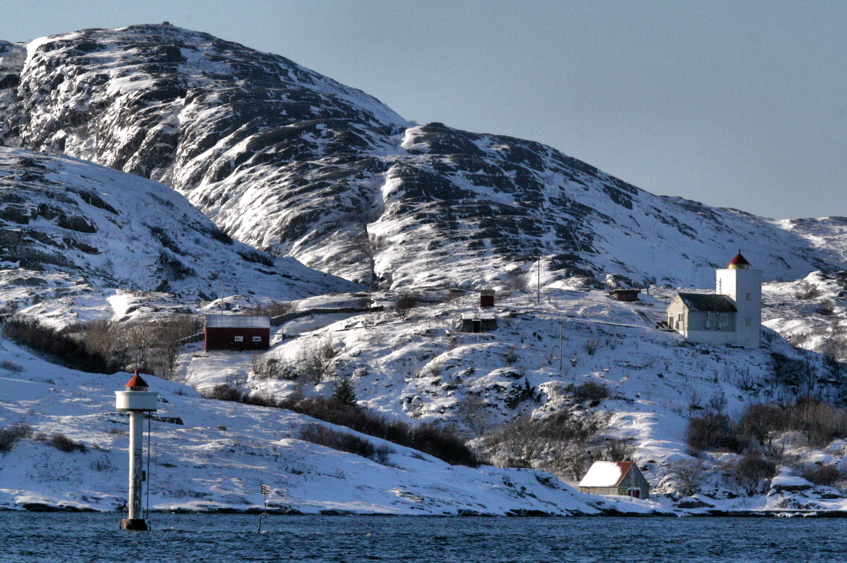 Agdenes lighthouse on the Trondheimsfjord, Norway. Winter 2005-2006